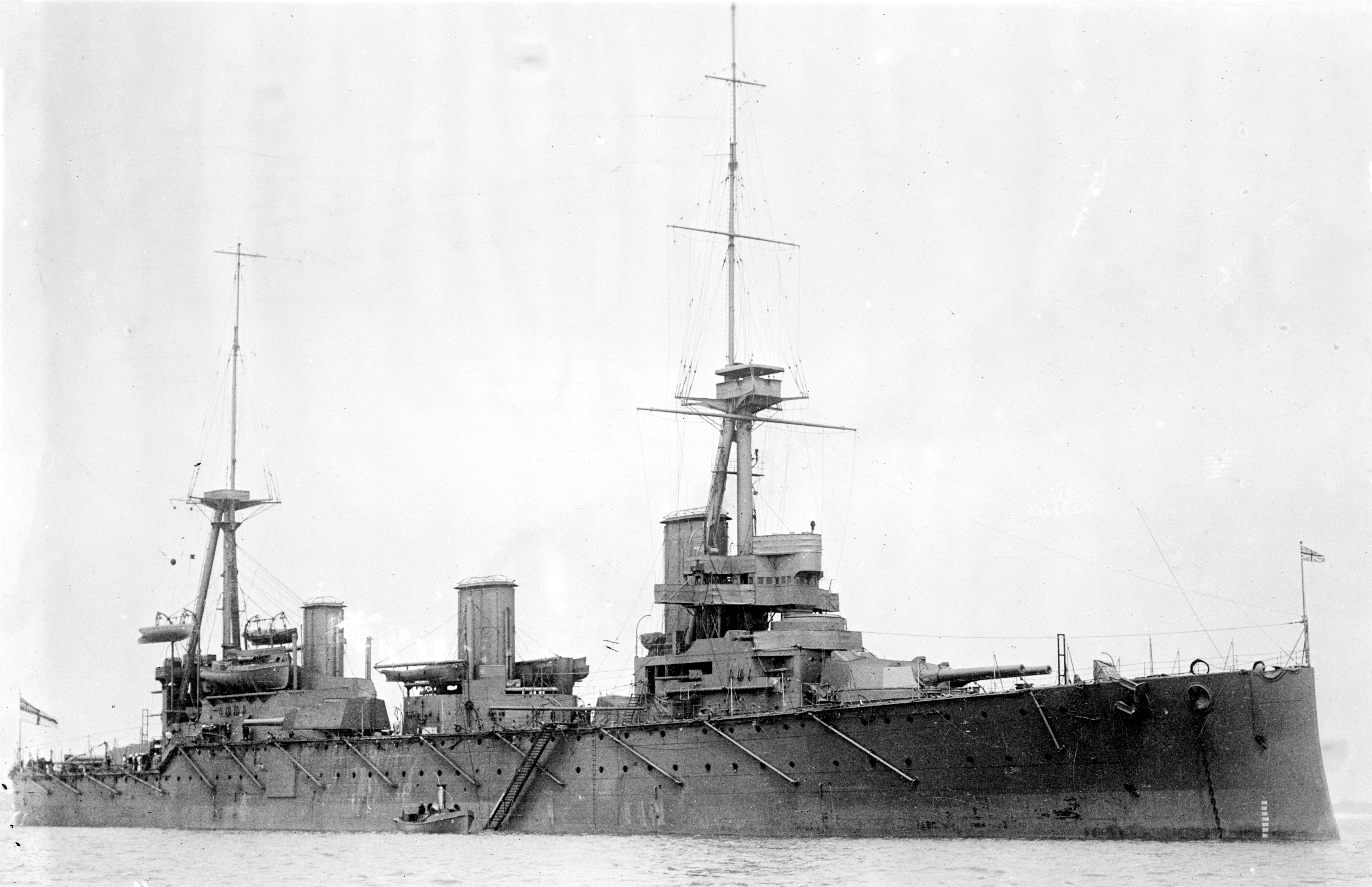 HMS New Zealand (1911), previously mislabeled as HMS Indefatigable (1909). She flies the RN White Ensign as a jack from the bow , whereas Australia flew the Southern Cross.